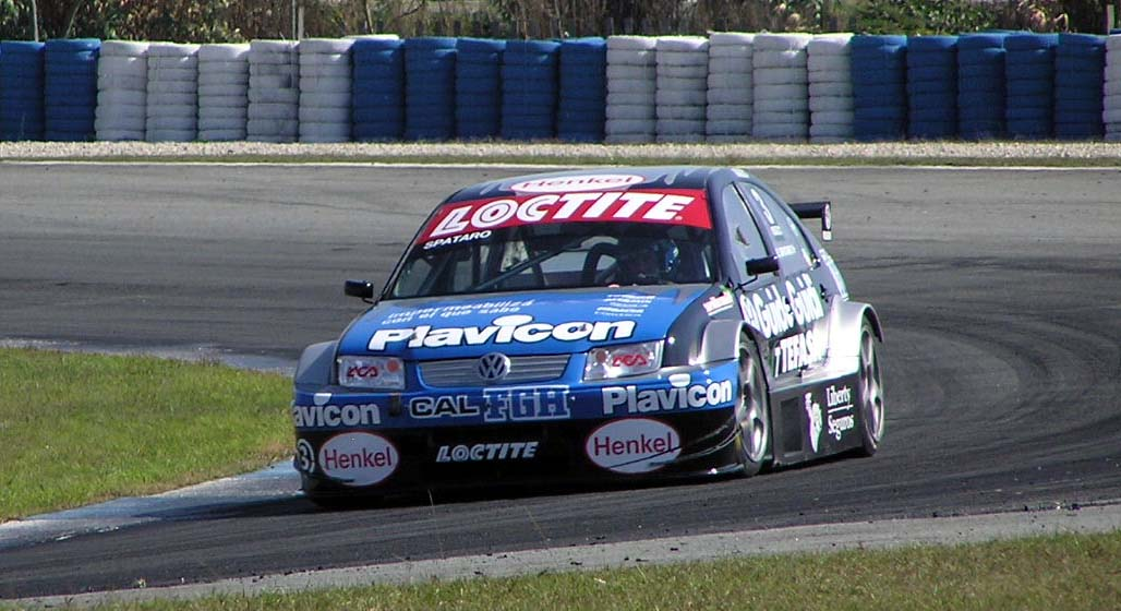 TC2000 team "Sportteam Competición": Volkswagen Bora#3 Emiliano Spataro